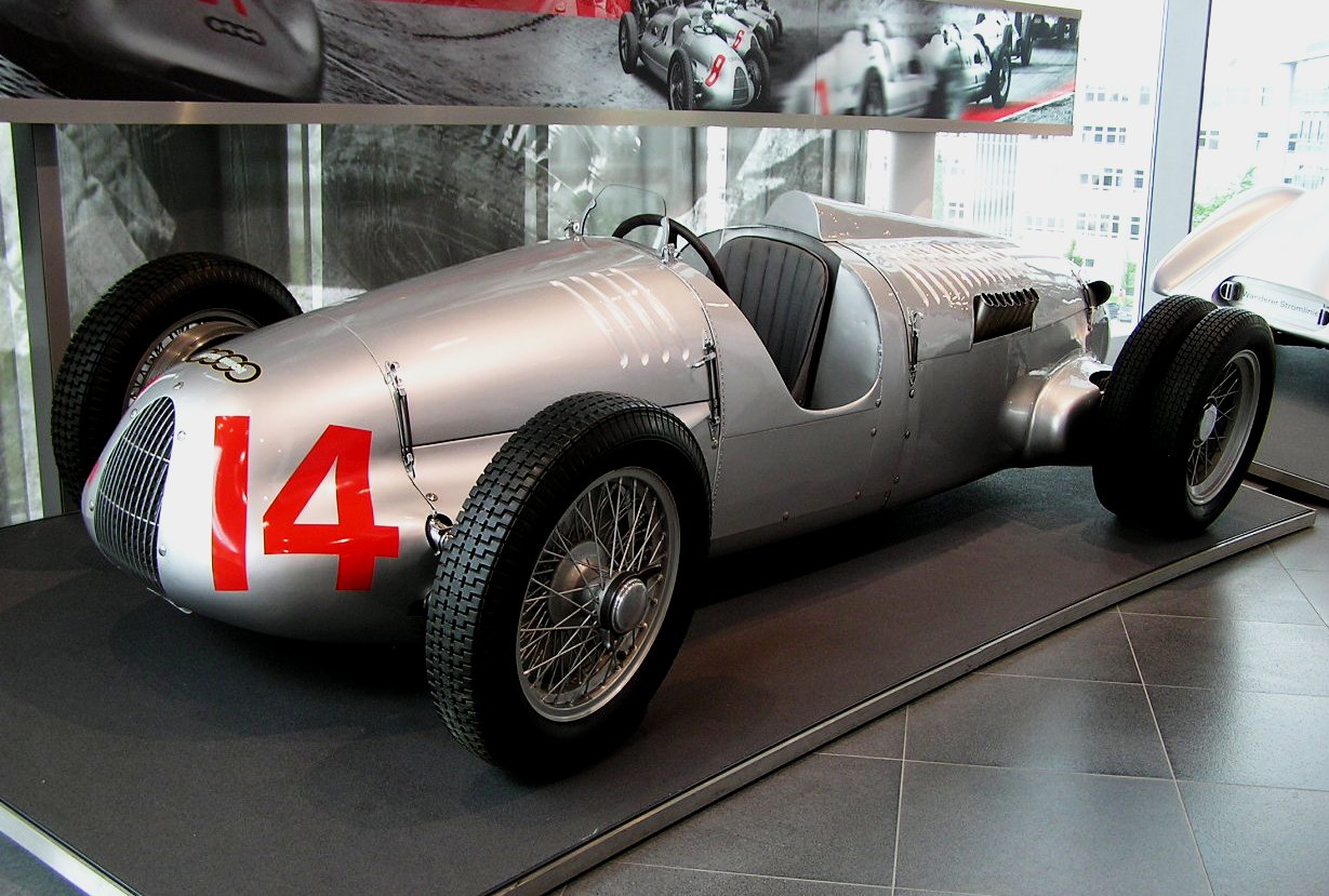 Auto Union Typ D–Bergrennwagen, mit einem 16-Zylinder-Motor des Typs C.